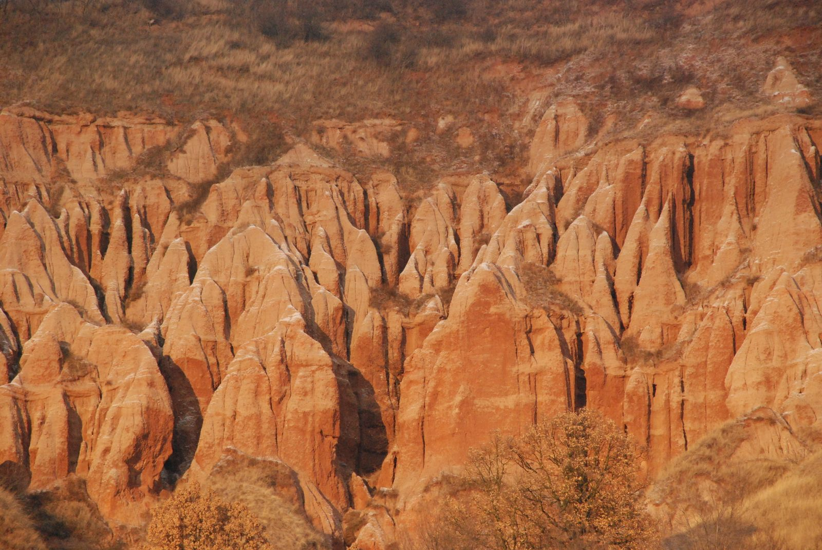 the Râpă Roșie cliff near Sebeș, Romania